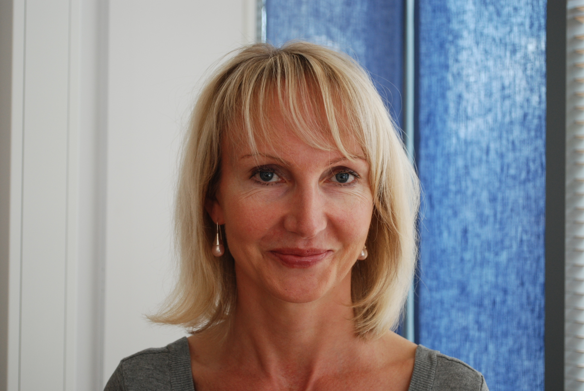 Karin Jirström